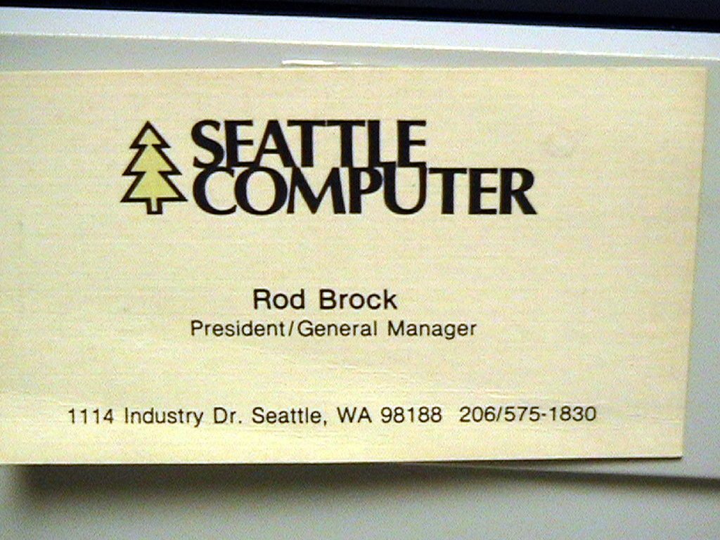 Image of business card of Rod Brock of Seattle Computer